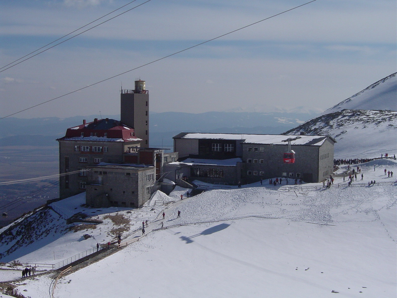 Skalnate pleso, cable station, hotel and ski center This medium shows the protected monument with the number 706-3850/2 in the Slovak Republic.